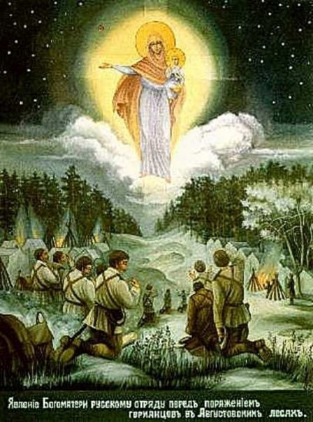 Icon of Our lady Avgustovskaya